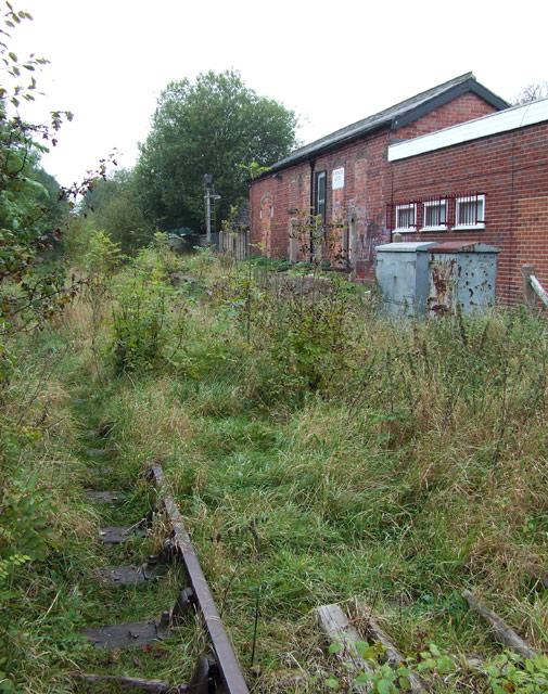 Endon Station (disused), Staffordshire Looking towards Stoke.